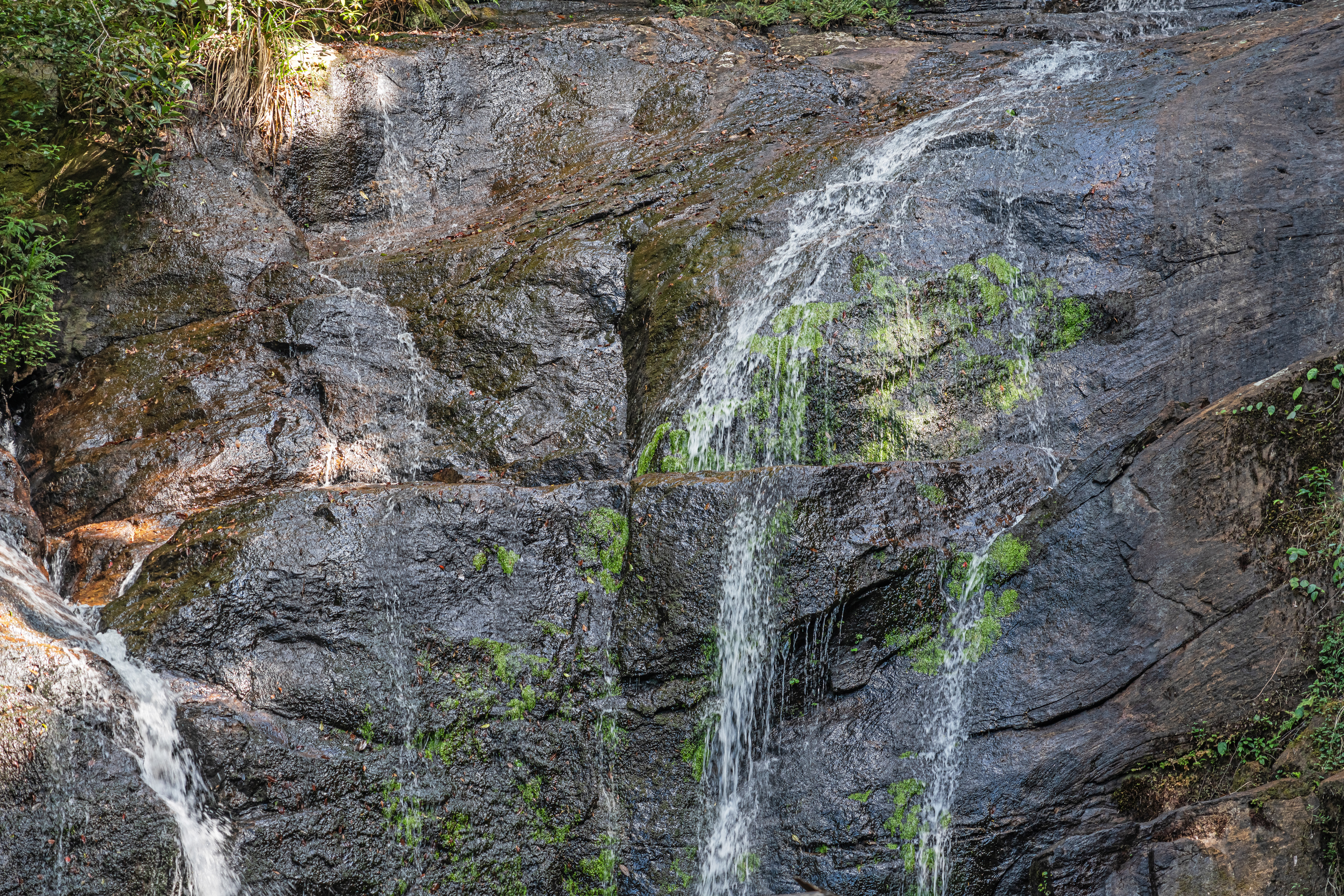 A waterfall in Sinharaja Rainforest near Deniyaya, Sri Lanka